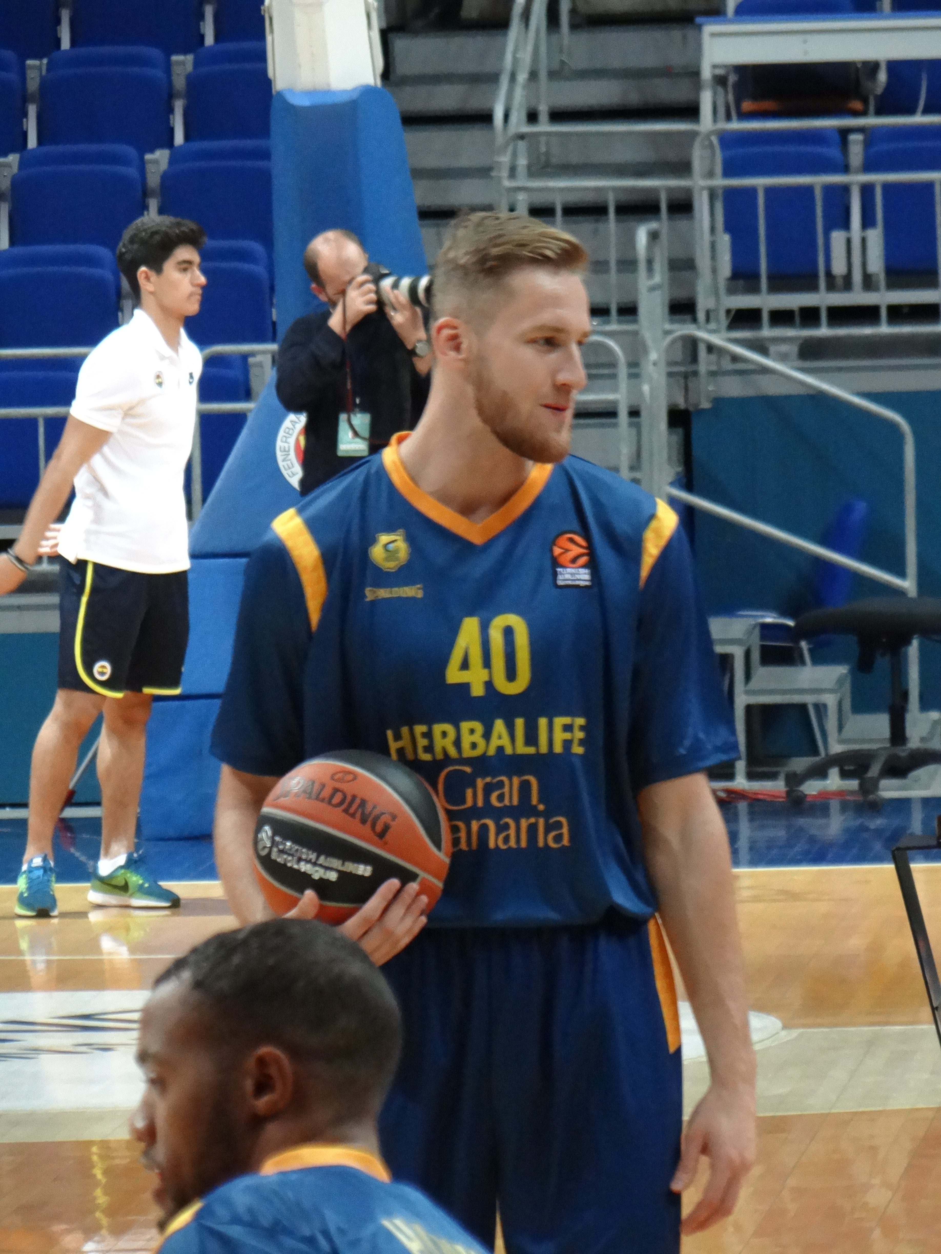 Luke Fischer 40 CB Gran Canaria EuroLeague 20181012